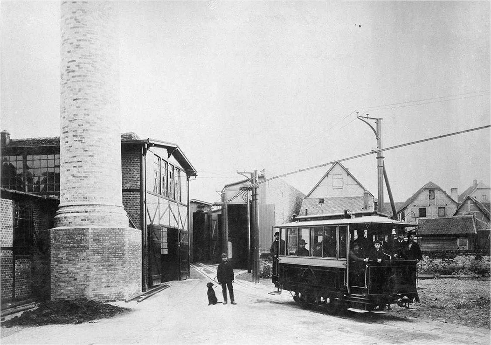 Coal-fired power plant of the Frankfurt and Offenbach Tramway Society (FOTG), one of the first electric tramway lines in the world and the first commercial electrical tramway in Germany and also the first tramway in Germany using a overhead line. The line was opened at February 18th, 1884 to Frankfurt-Oberrad and at April 10th, 1884 further to Offenbach.